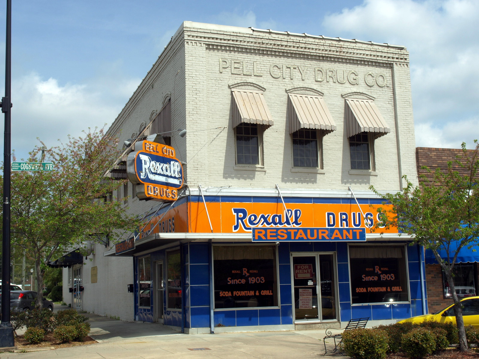 The Pell City Drug Company building at 1901 Cogwell Avenue in Pell City, Alabama, part of the Pell City Downtown Historic District.